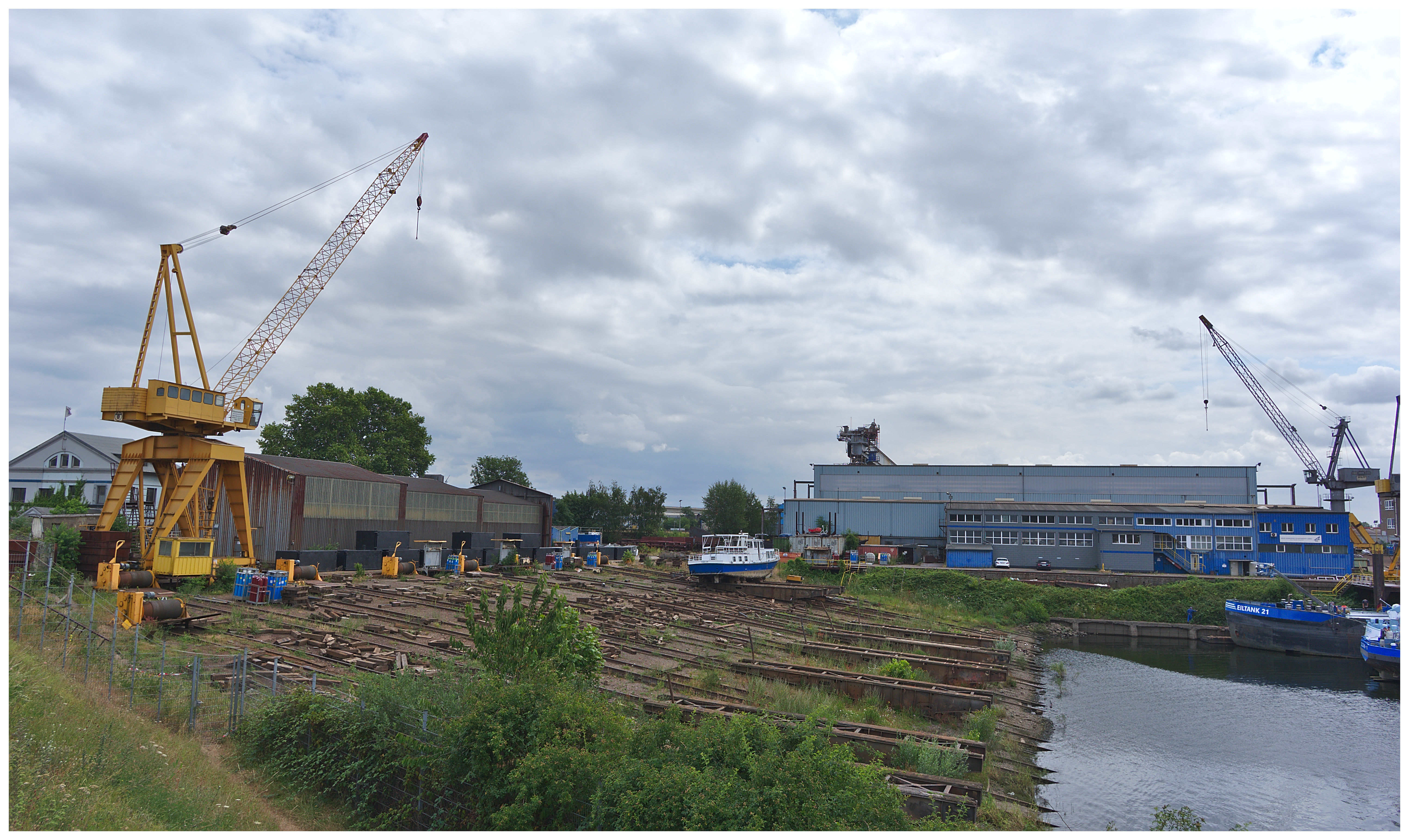 View on the shipyard "Neue Ruhrorter Schiffswerft" in Duisburg